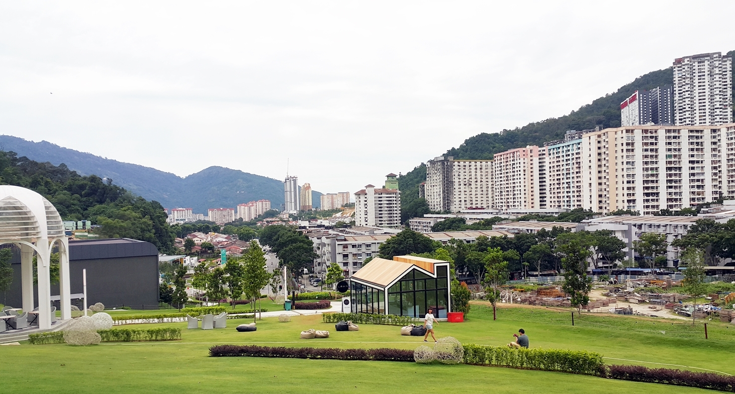 View of Paya Terubong from Ecoworld's Terrace